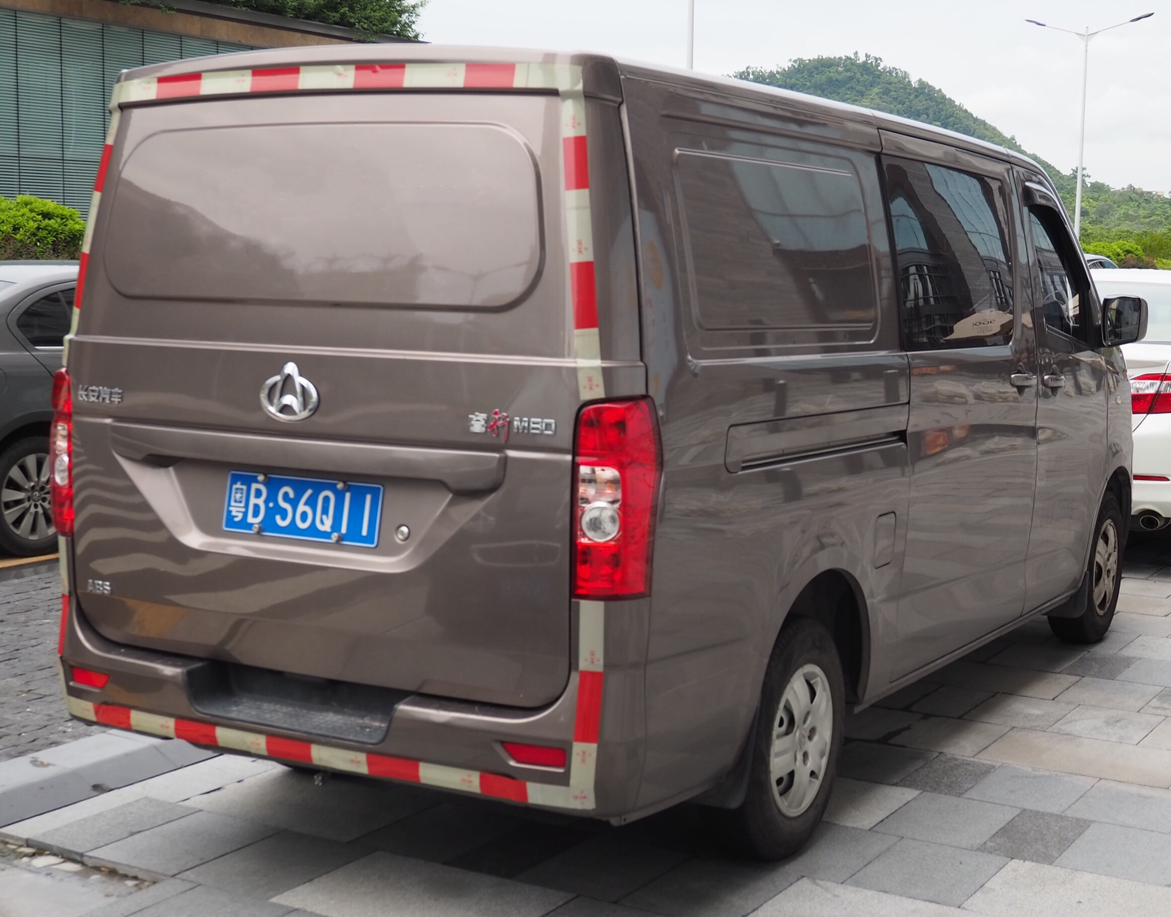 A 2013 Chana Ruixing M80 taken in Shenzhen, Guangdong province, China. 中文（中国大陆）: 一辆2013年的长安睿新M80，摄于中国广东省深圳市。